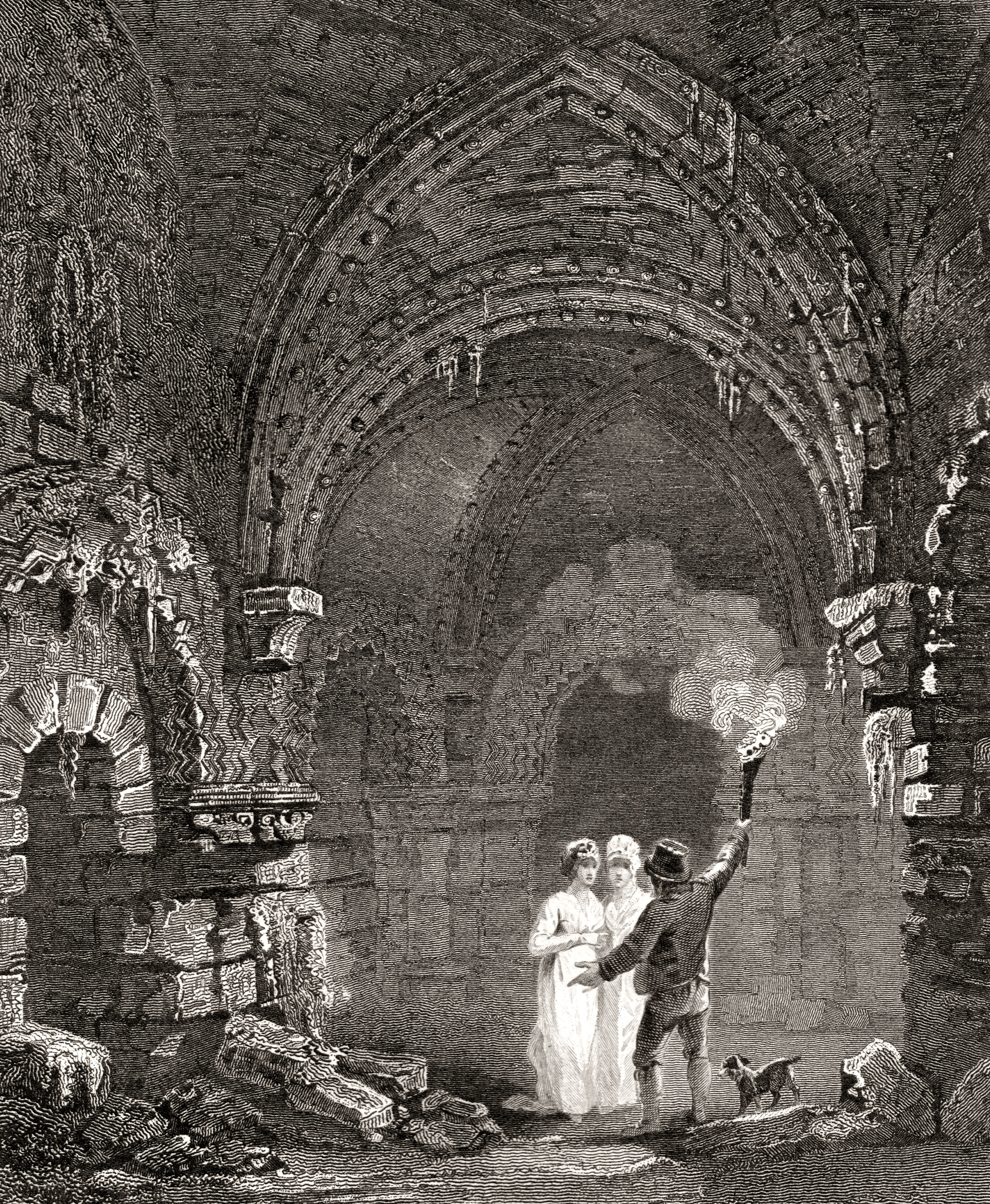 An interior view of Newcastle Castle in 1814